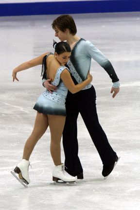 Amanda Velenosi and Mark Fernandez during their free skating program at the 2008 World Junior Figure Skating Championships.